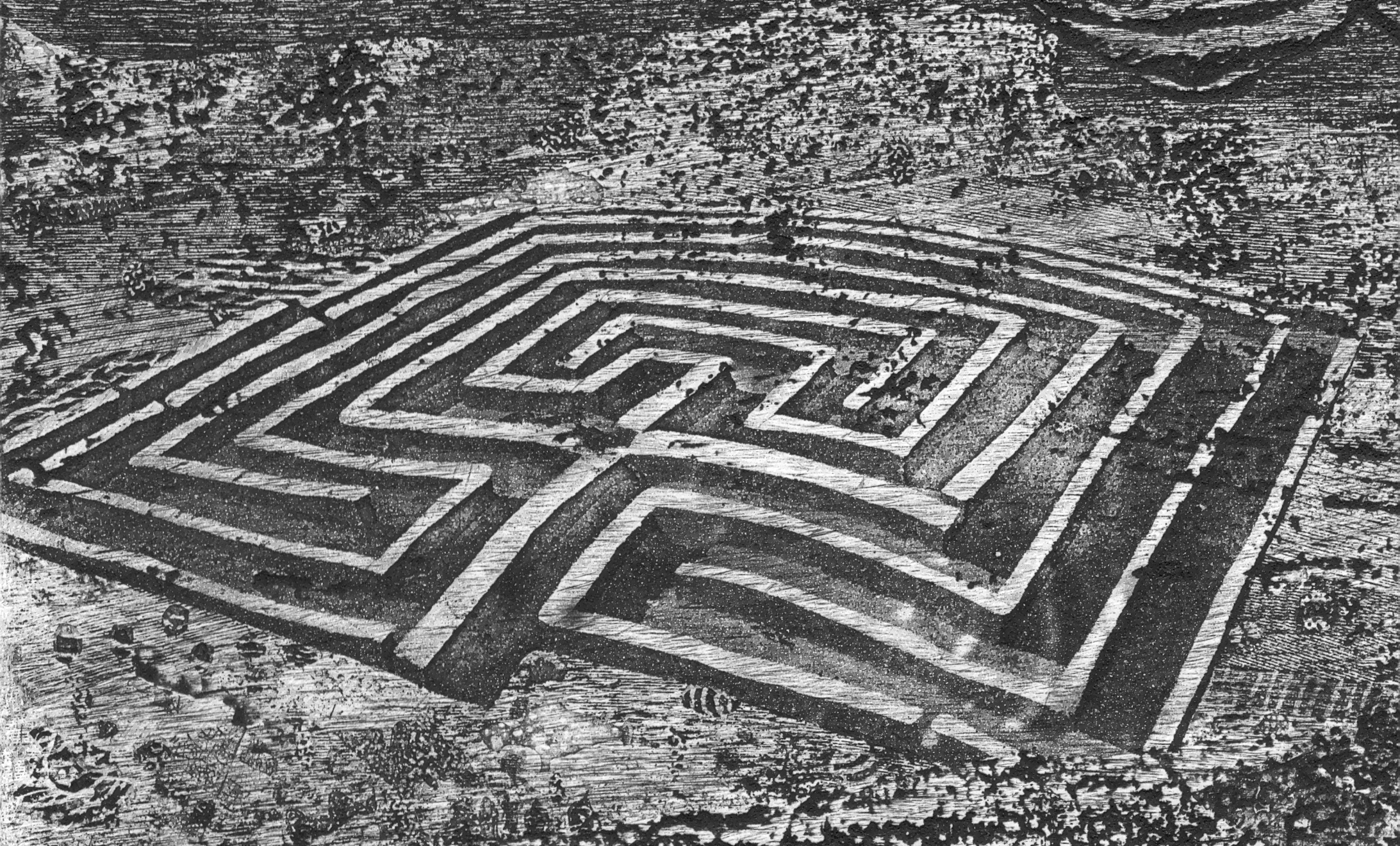 Labyrinth XI, etching, aquatint, soft-ground etching, Engraved and designed by Toni Pecoraro 1998.